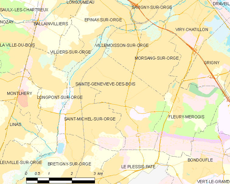 Map of French municipality Sainte-Geneviève-des-Bois